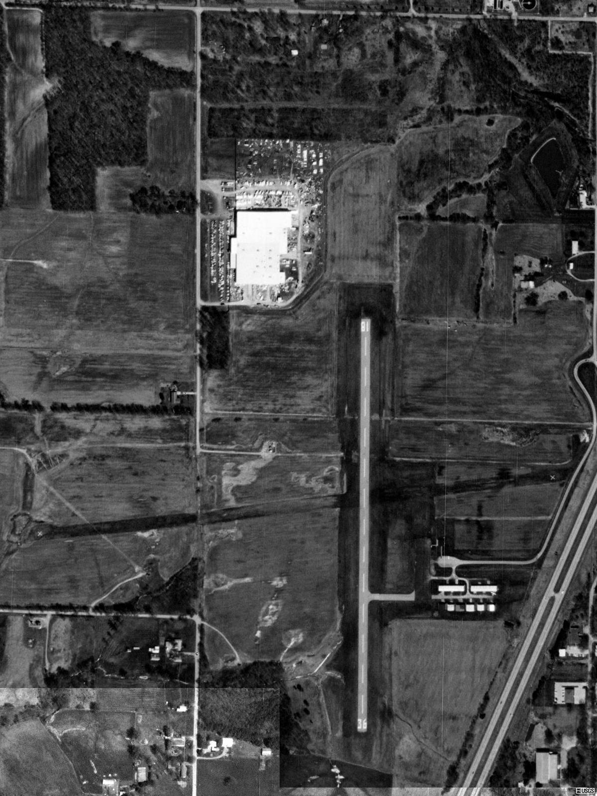 USGS digital orthophoto of Benton Municipal Airport in Benton, Illinois, United States.